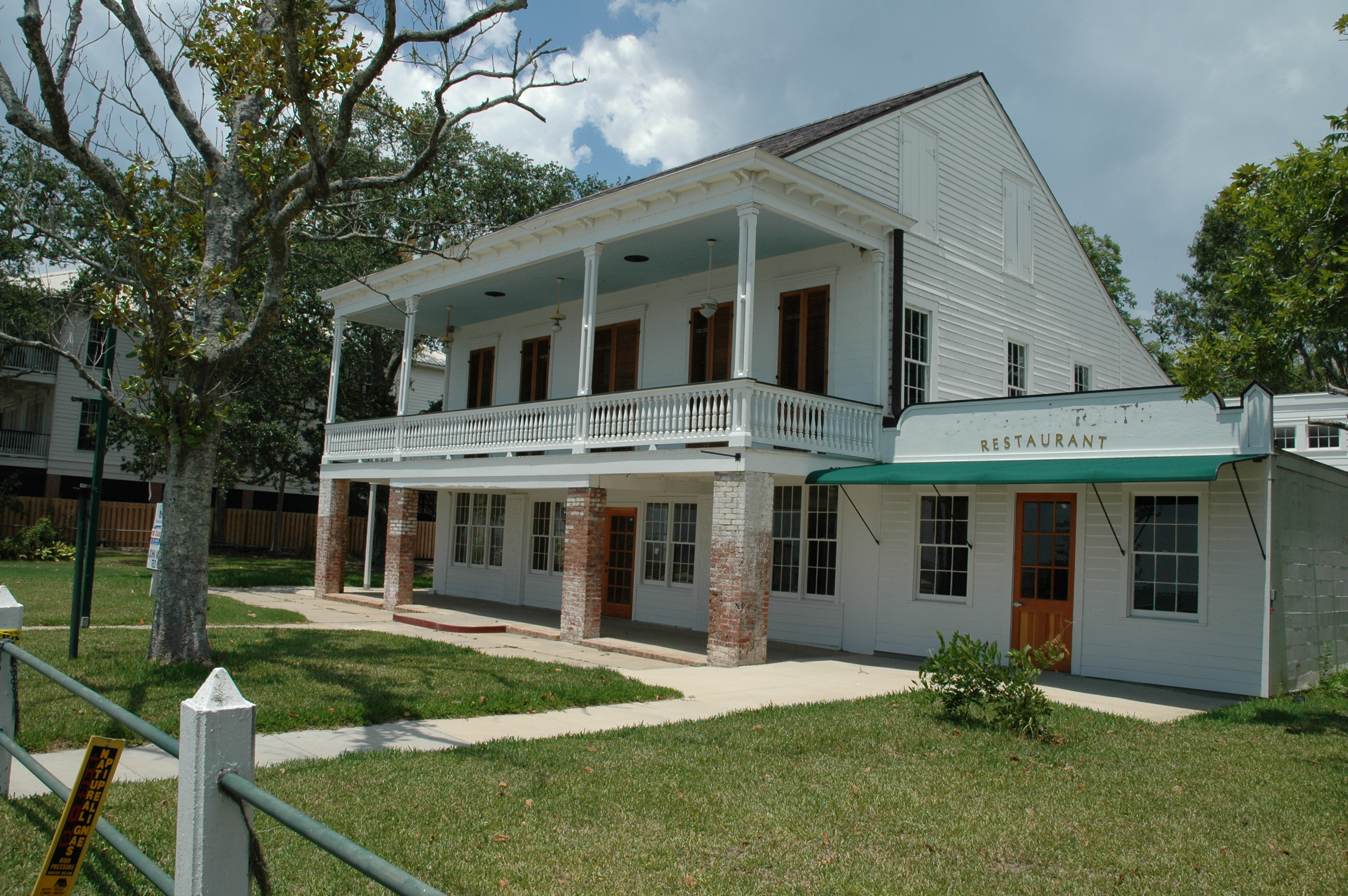 Mandeville, Louisiana. Originally built in 1830 by the guy who laid out Mandeville. Became Bechac's, a popular casino back in the day, restaurant in our time. Walker Percy's favorite hangout. When Alex Patout took it over, there was a fire that destroyed a good bit. I'm sure it flooded a ton during the two storms last year. Right now it's up for sale.